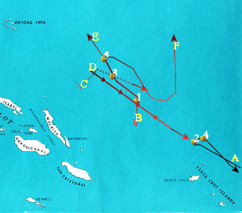 Chart of the Battle of the Santa Cruz Islands, October 26, 1942, showing approximate paths of participating forces. Tracks: A- U.S. carrier task forces: Hornet and Enterprise (solid black line) B- Japanese "Main" body under Chuichi Nagumo with carriers Zuiho, Shokaku, and Zuikaku (solid red line) C- Japanese carrier Junyo under Rear Admiral Kakuji Kakuta (dotted red line) D- Japanese battleship and cruiser "Advanced" and "Vanguard" forces under Nobutake Kondo and Hiroaki Abe (arrowed red line) E- Zuiho and Shokaku withdraw from battle area F- Zuikaku and Junyo join to launch afternoon strikes on U.S. carrier forces Numbered yellow dots: 1- 08:30-Zuiho hit 2- 10:15-Hornet hit and crippled 3- 10:20-Shokaku hit 4- 11:15-Enterprise hit 5- 12:30-Zuiho and Shokaku retire from the battle area.